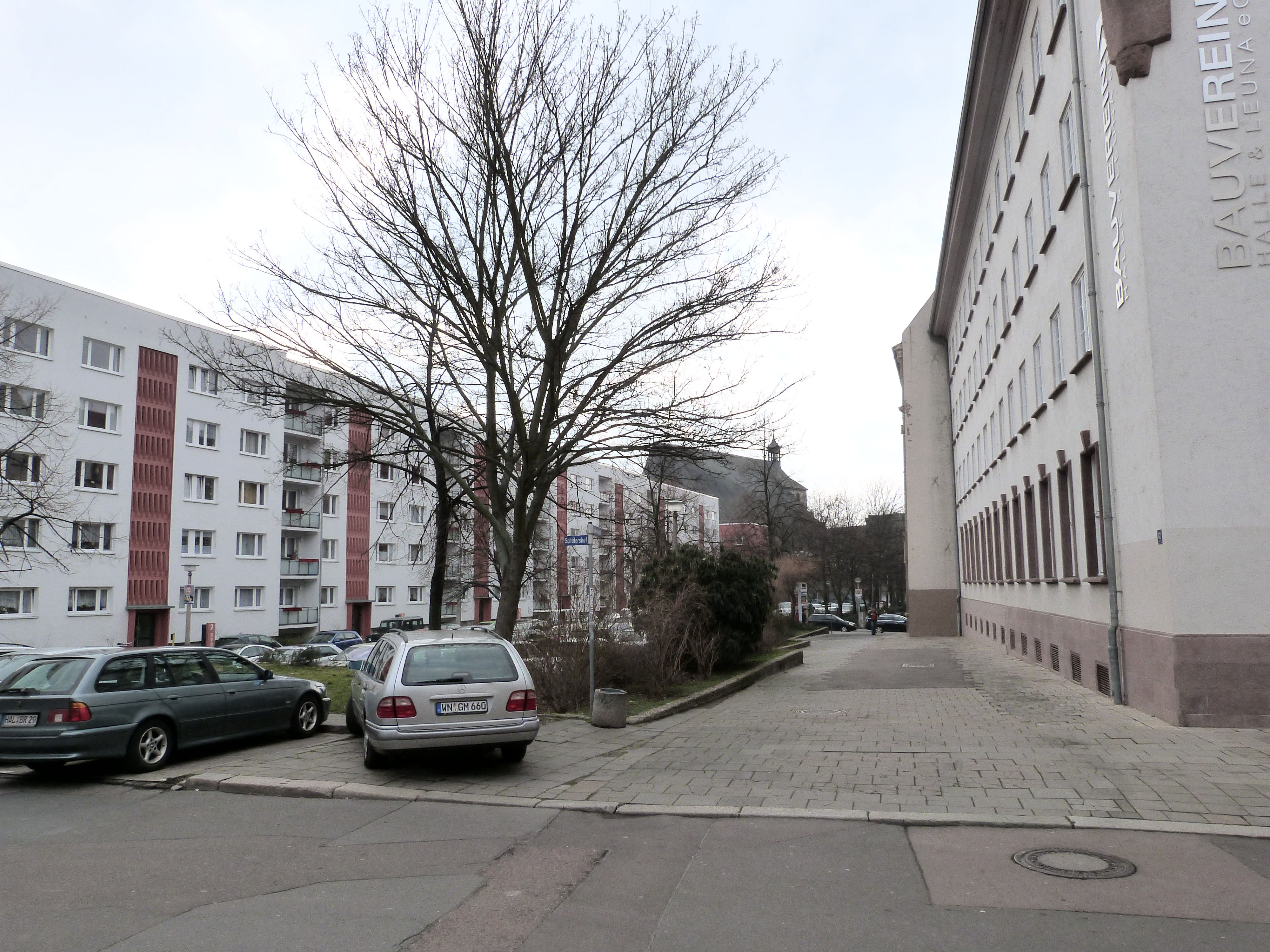 Street Schülershof, Halle (Saale)